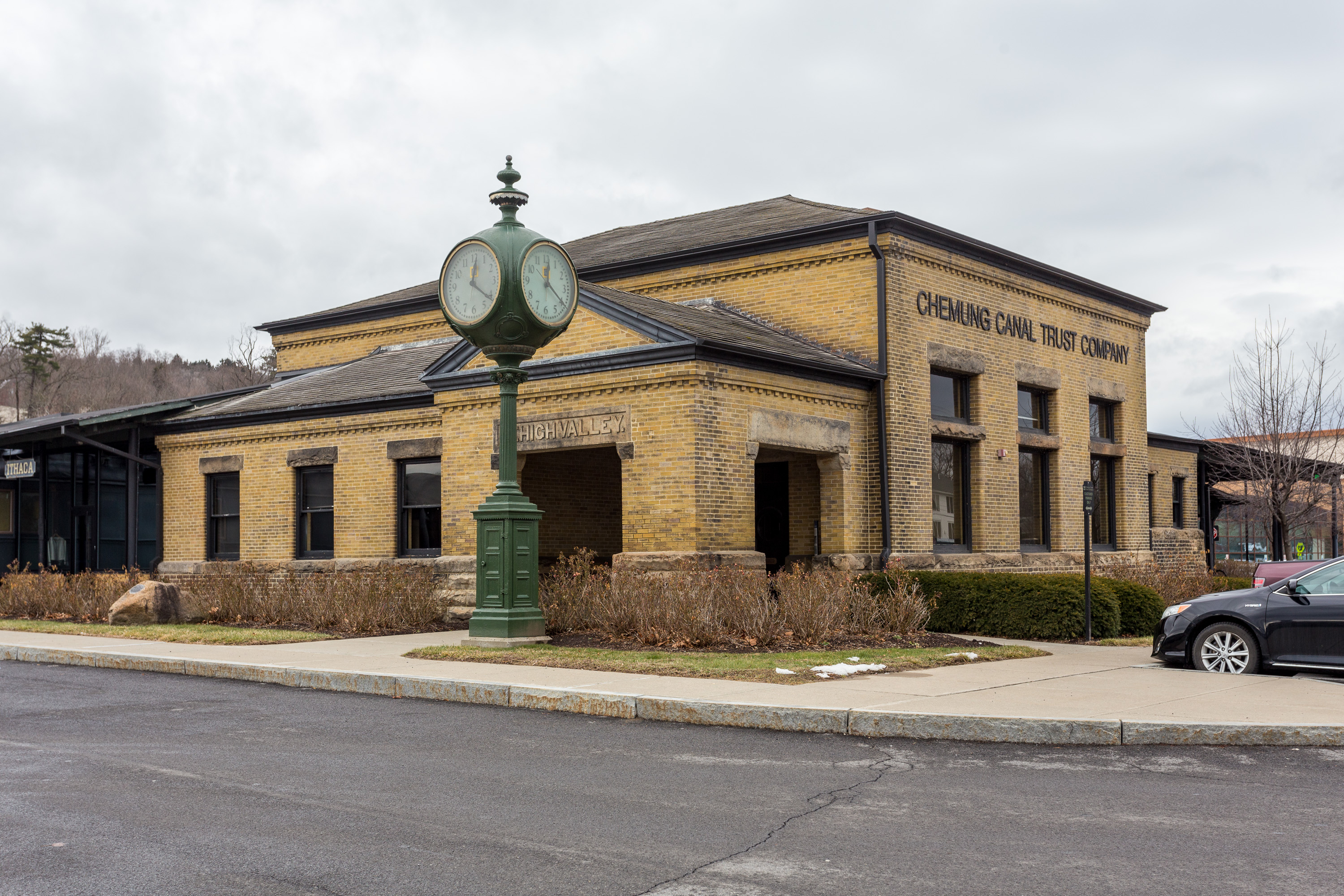 Former Lehigh Valley Railroad Station, Ithaca, New York. Built 1898.